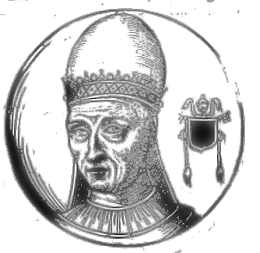 Pope Benedictus VIII, drawn extracted by Bartolomeo Sacchi said Platina, Vite De' Pontefici, edited by Onofrio Panvinio, per i tipografi Turrini, e Brigonci, Venice 1663